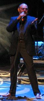 Barry Adamson cocnert in Primavera Sound 2007, Barcelona, Spain.